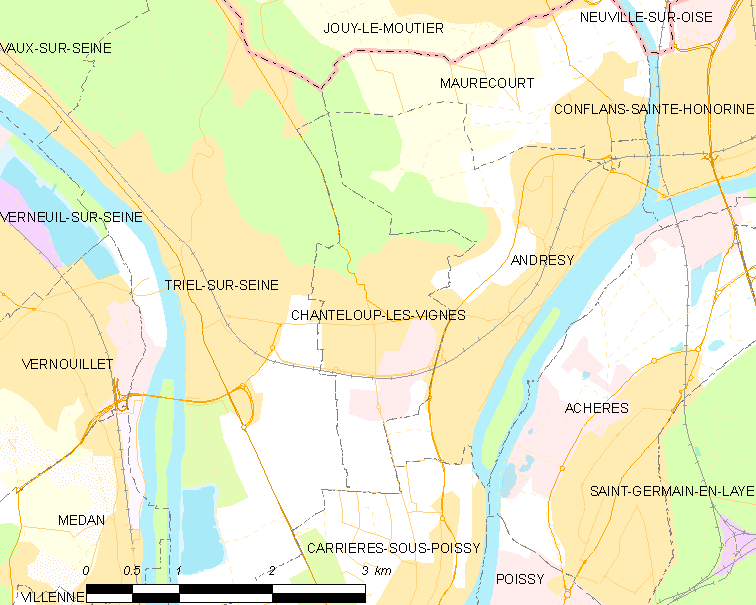 Map of French municipality Chanteloup-les-Vignes